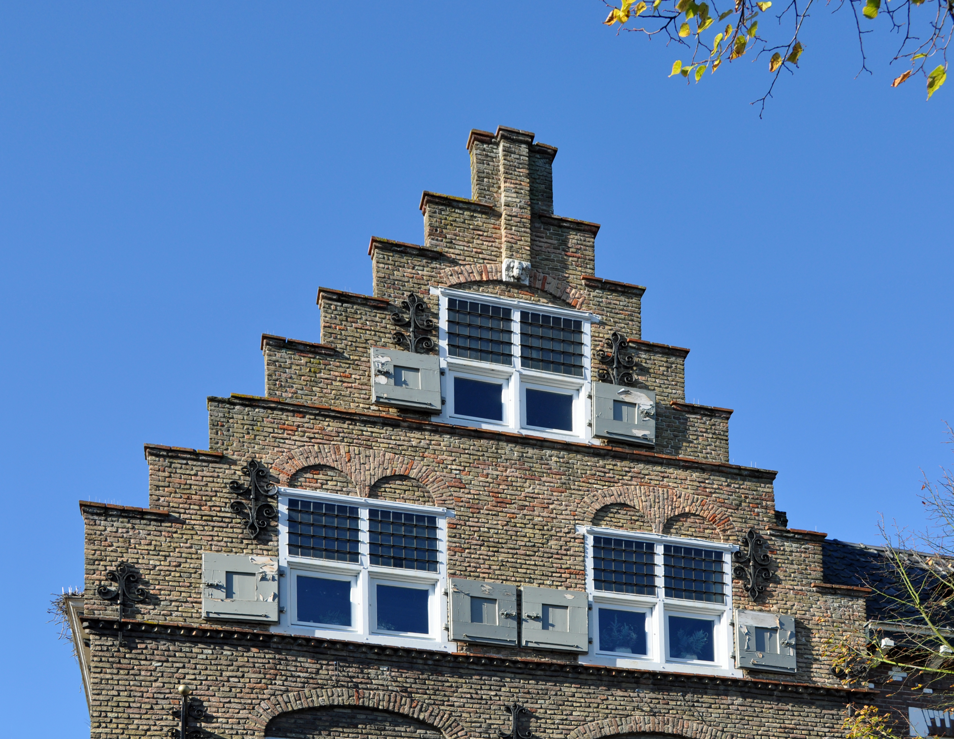 IJzendijke (Sluis, the Netherlands): house Markt 8 - gable with corbeysteps